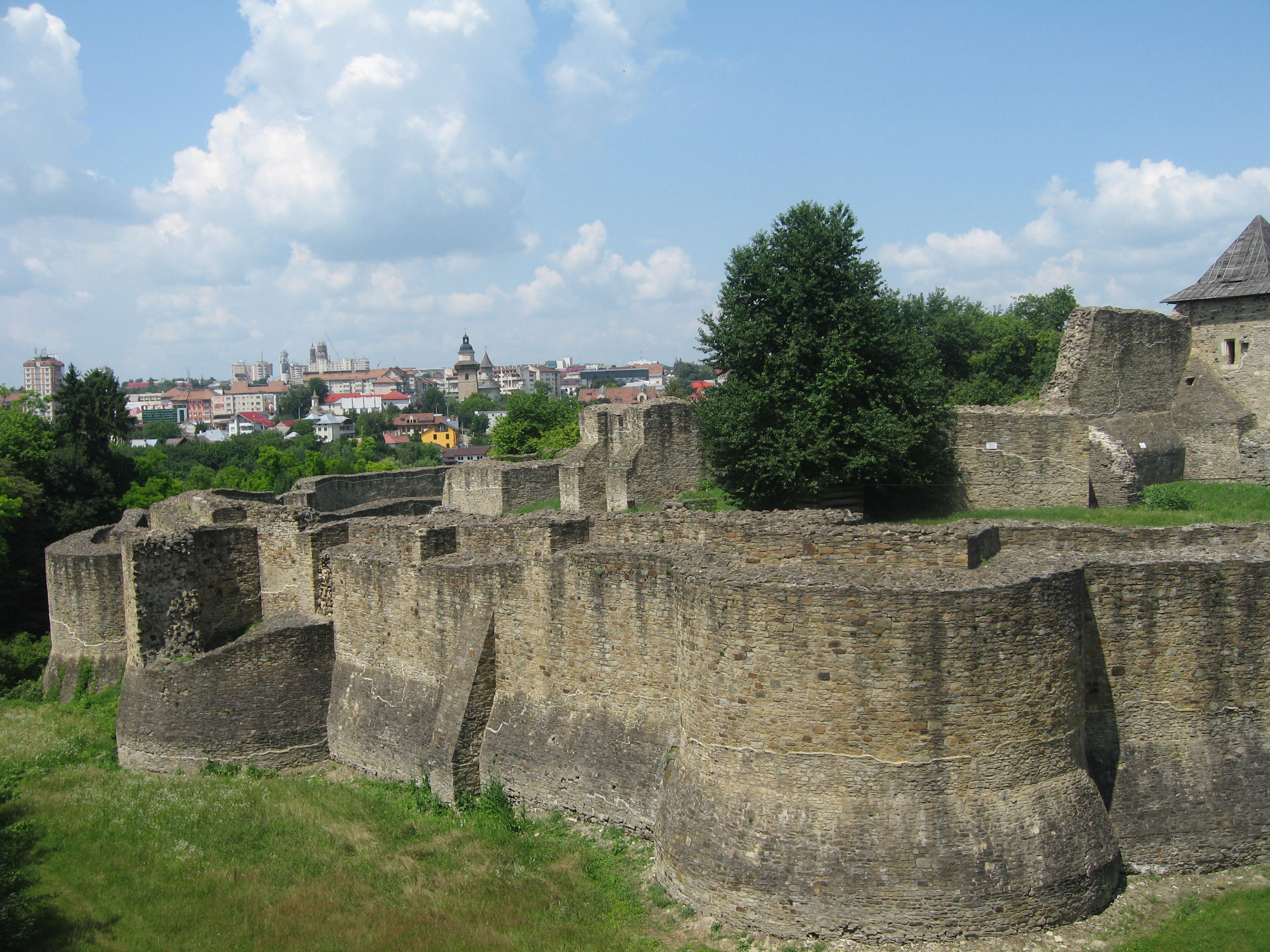 Seat Fortress of Suceava – the western part.